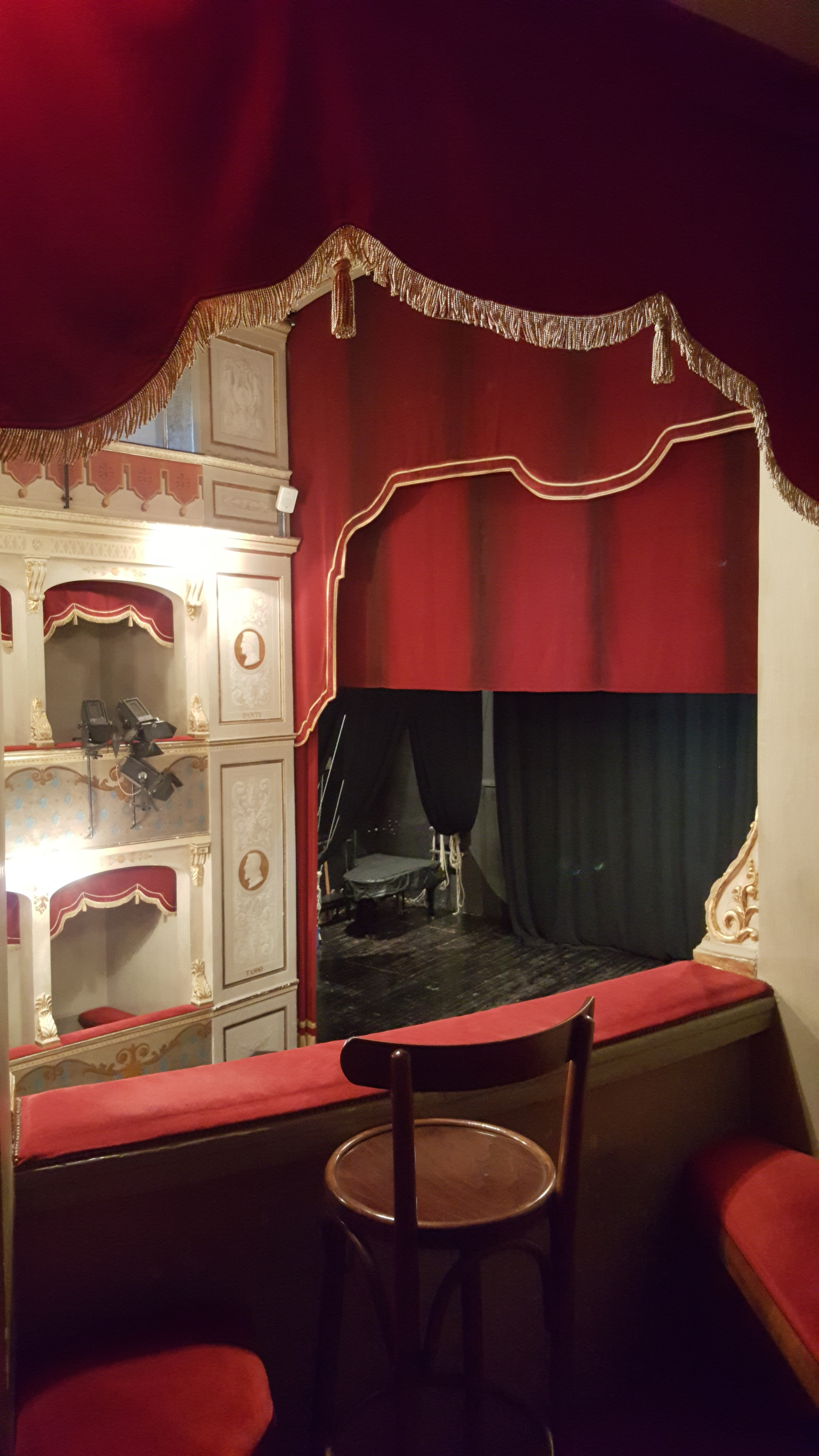 This is a photo of a monument which is part of cultural heritage of Italy.